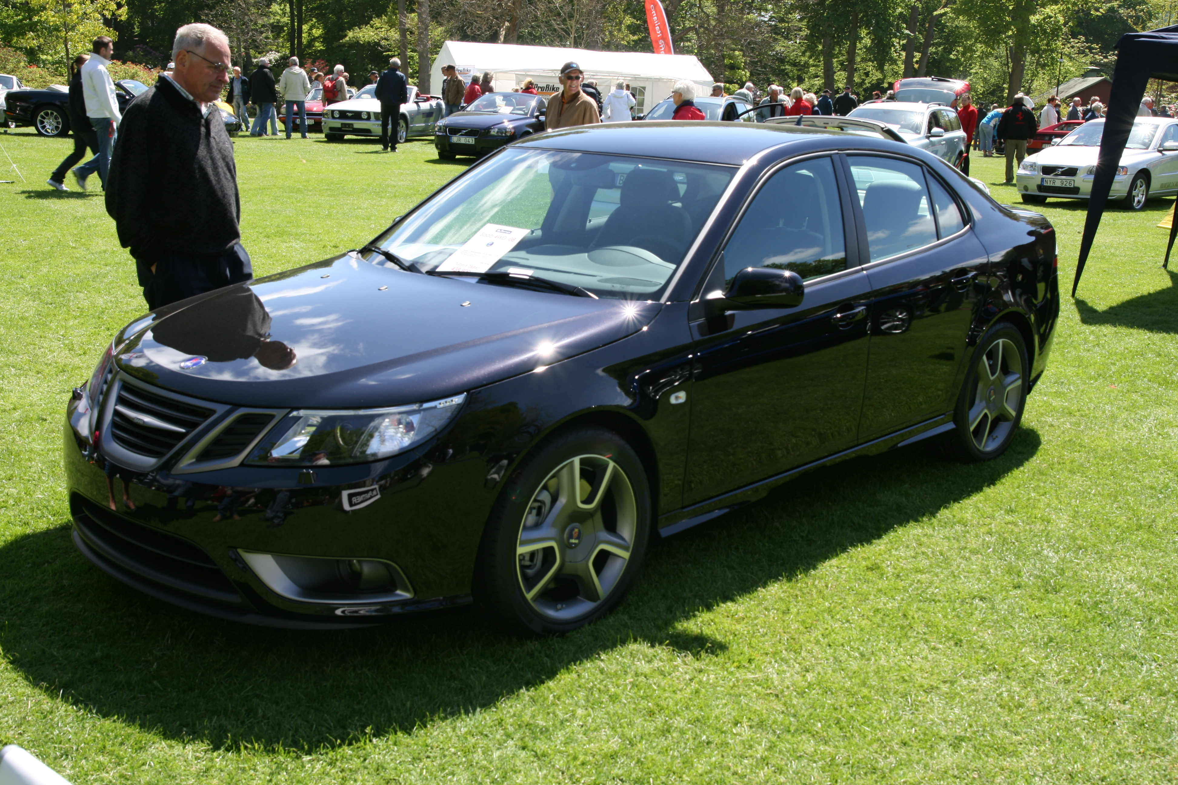 Front left view of a 2008 Saab 9-3 Turbo X parked at the Sofiero Classic car show at Sofiero castle in Helsingborg, Sweden.